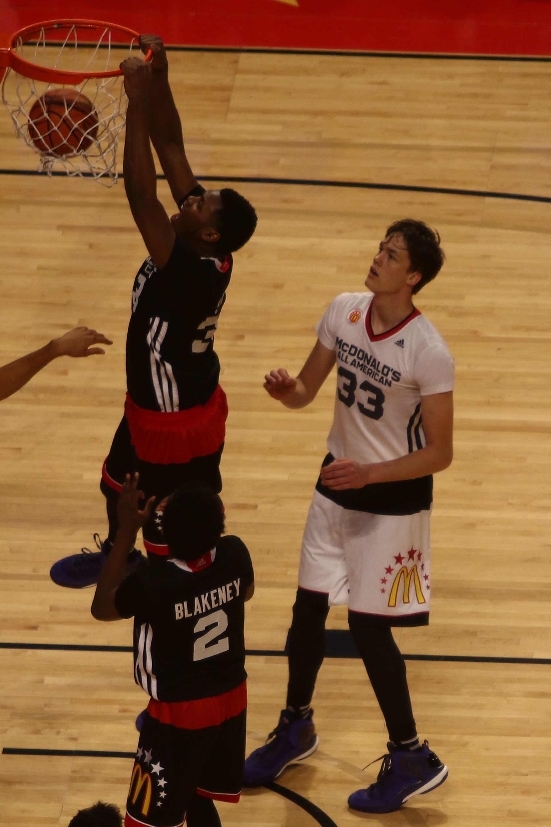 Diamond Stone in front of Stephen Zimmerman in the w:2015 McDonald's All-American Boys Game